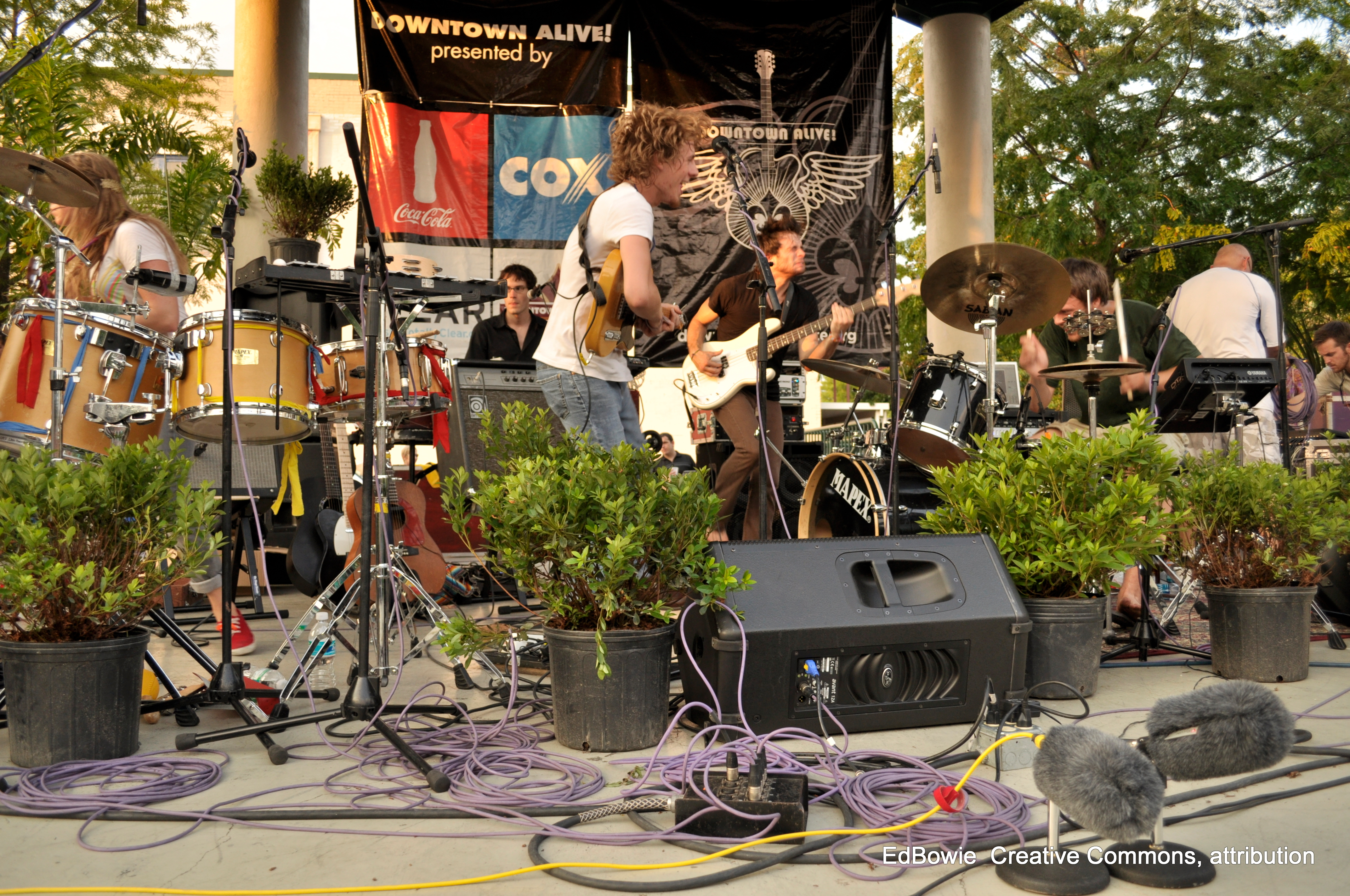 Givers at Downtown Alive, Lafayette, Louisiana